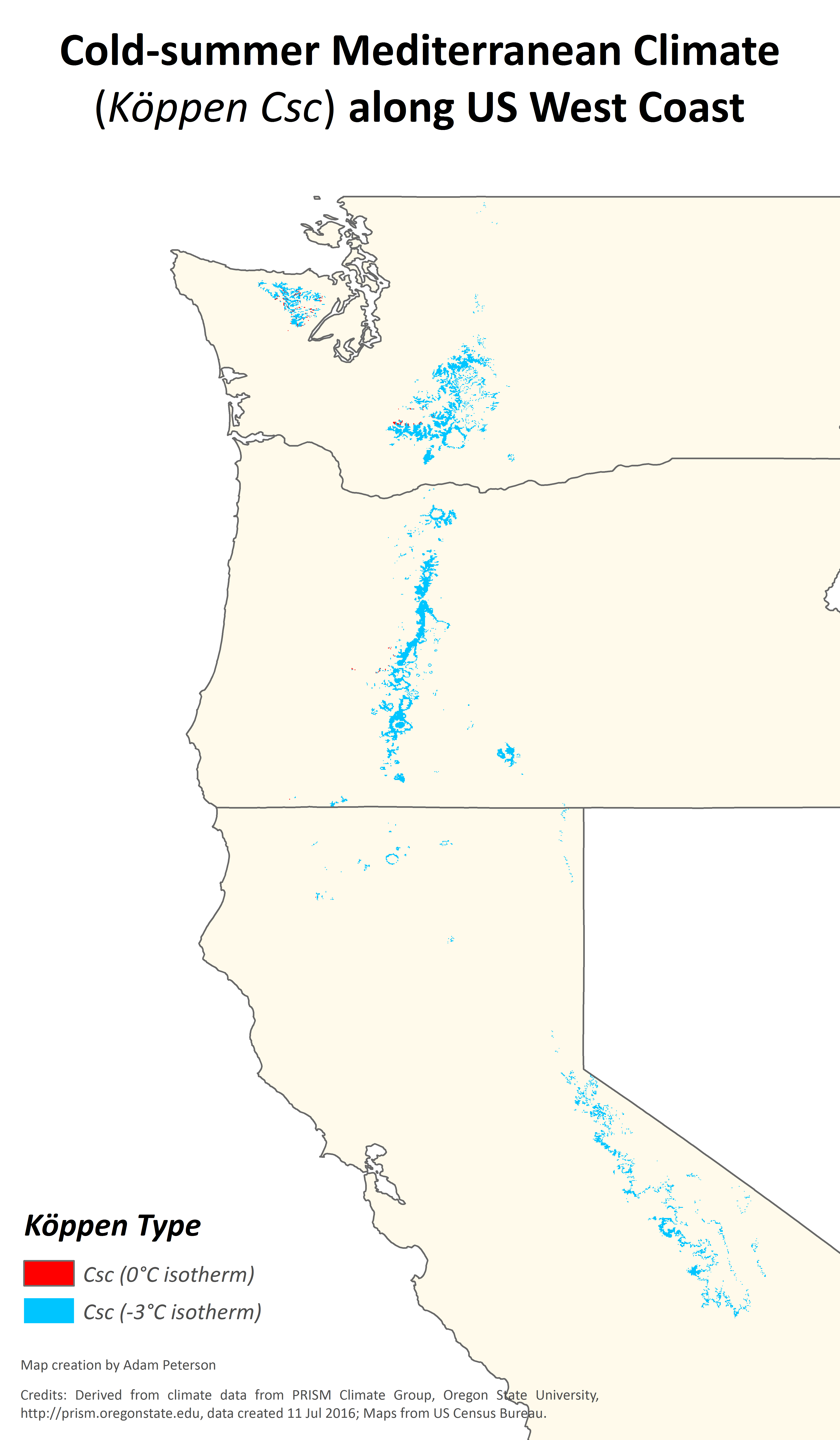 This map shows the scattered and limited distribution of the relatively rare cold-summer Mediterranean climate (Köppen type Csc) along the west coast of the United States. Occurrences are limited to higher elevation locations in the Olympic Mountains, Cascade Mountains, Klamath Mountains, and Sierra Nevada. The extent of this climate type using both 0°C and -3°C isotherms (both isotherms are in academic usage for the border between a "temperate" and "continental" climate) is shown.